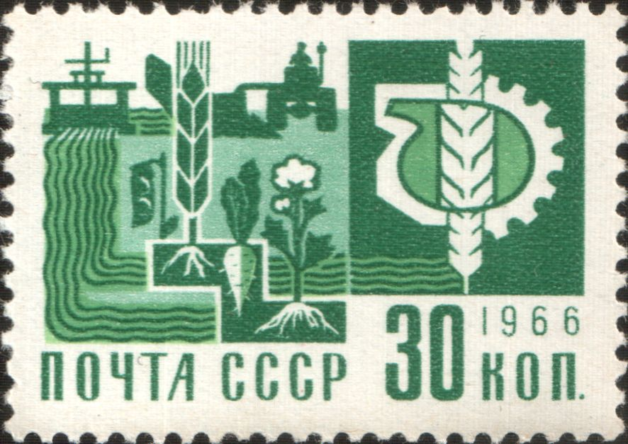 Stamp of the Soviet Union, 1966, CPA 3423.